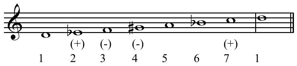 Pelog tuning system. "The representations of slendro and pelog tuning systems in Western notation shown above should not be regarded in any sense as absolute. Not only is it difficult to convey non-Western scales with Western notation, but also because, in general, no two gamelan sets will have exactly the same tuning, either in pitch or in interval structure. There are no Javanese standard forms of these two tuning systems." Lindsay, Jennifer (1992). Javanese Gamelan, p.39-41. ISBN 0-19-588582-1.